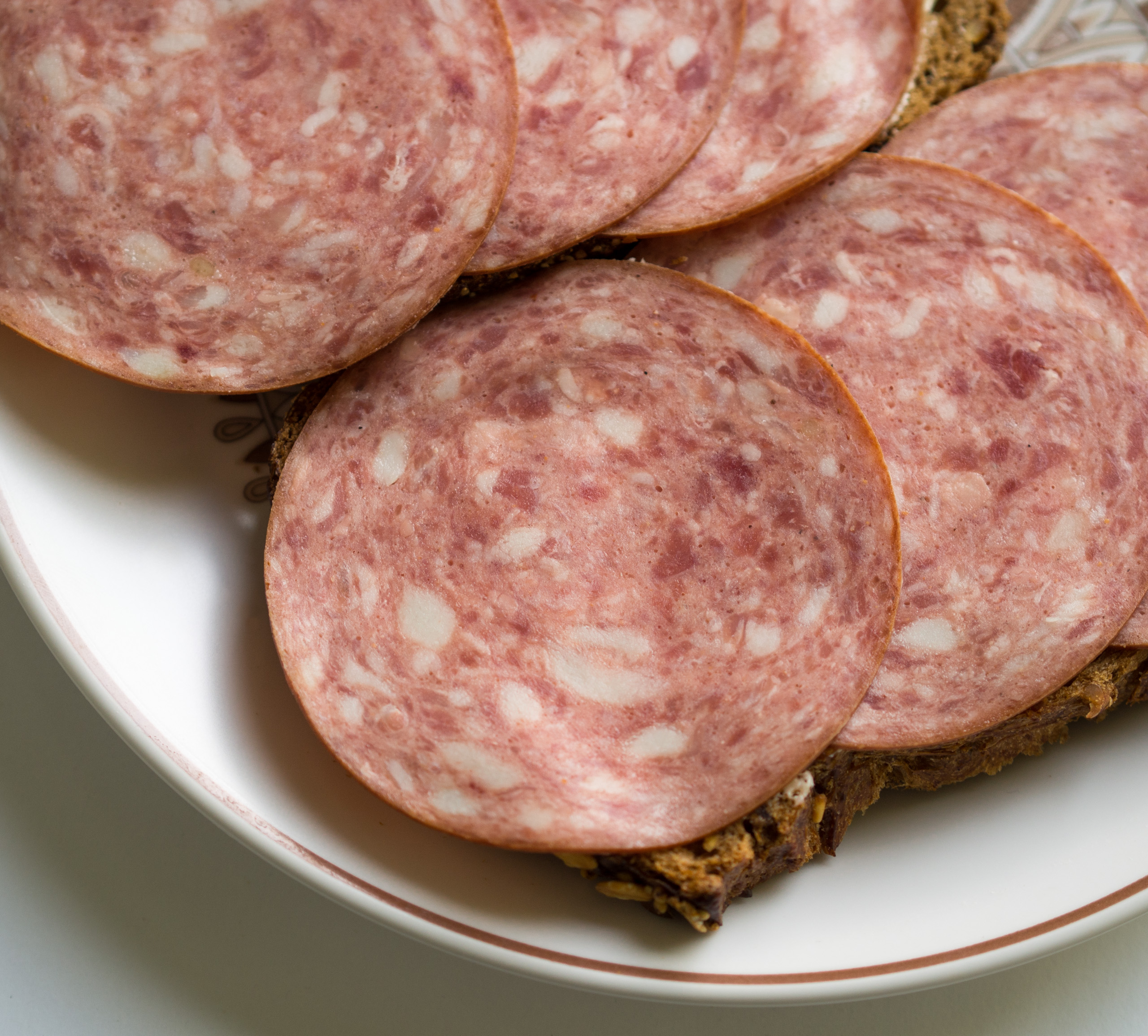 Palingworst (lit. "Eel sausage" in Dutch) is a type of pork sausage in the Netherlands which contains pork fat that has been smoked in a similar fashion as how eels are smoked, resulting in a flavour that is somewhat reminiscent of smoked eel. This sausage is usually eaten as a cold cut on bread, for breakfast or lunch.